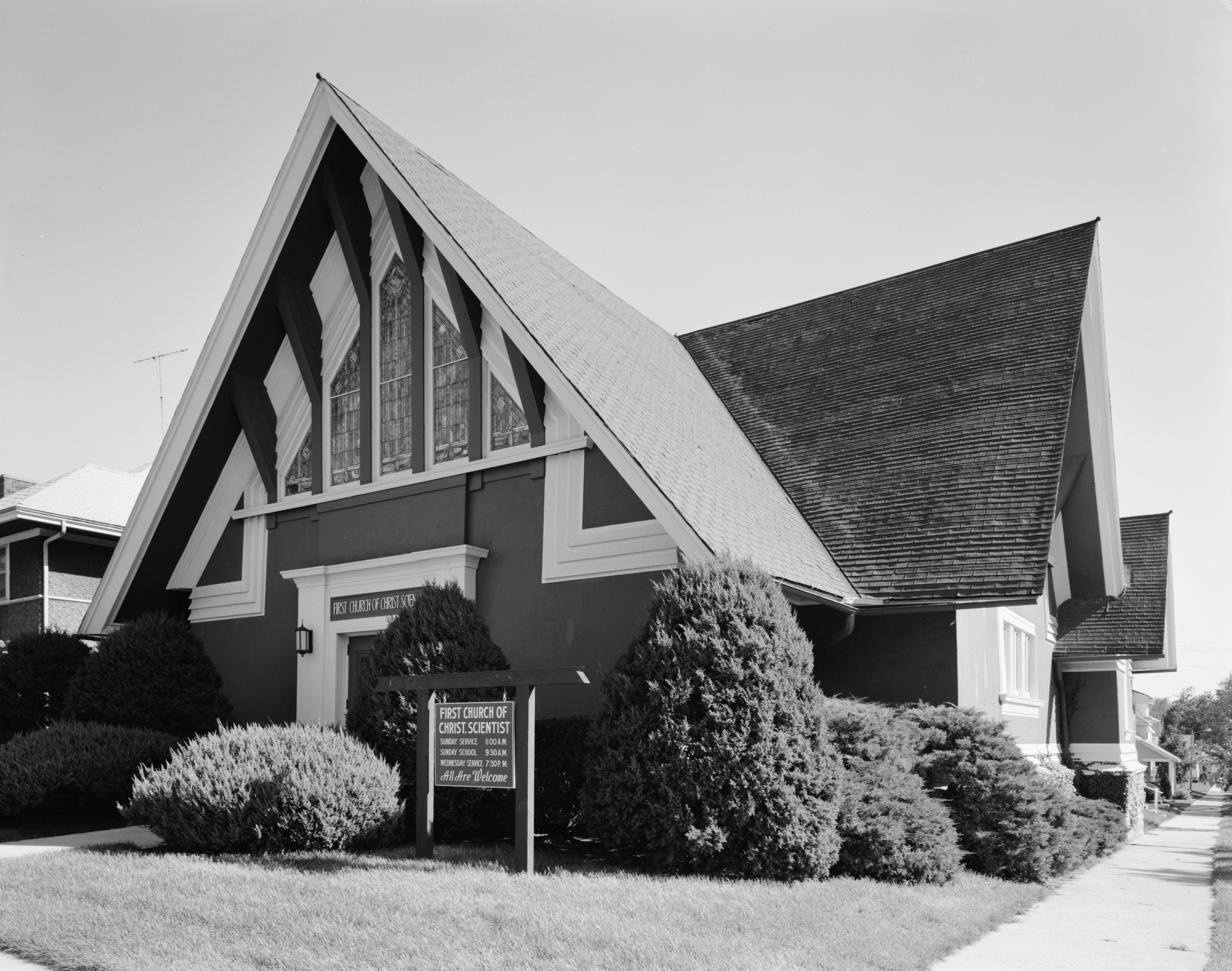 First Church of Christ, Scientist, Marshalltown, Iowa: 1. NORTH (FRONT) FACADE Image courtesy of federal HABS—Historic American Buildings Survey in Iowa project. HABS IOWA,64-MARS,1-1.